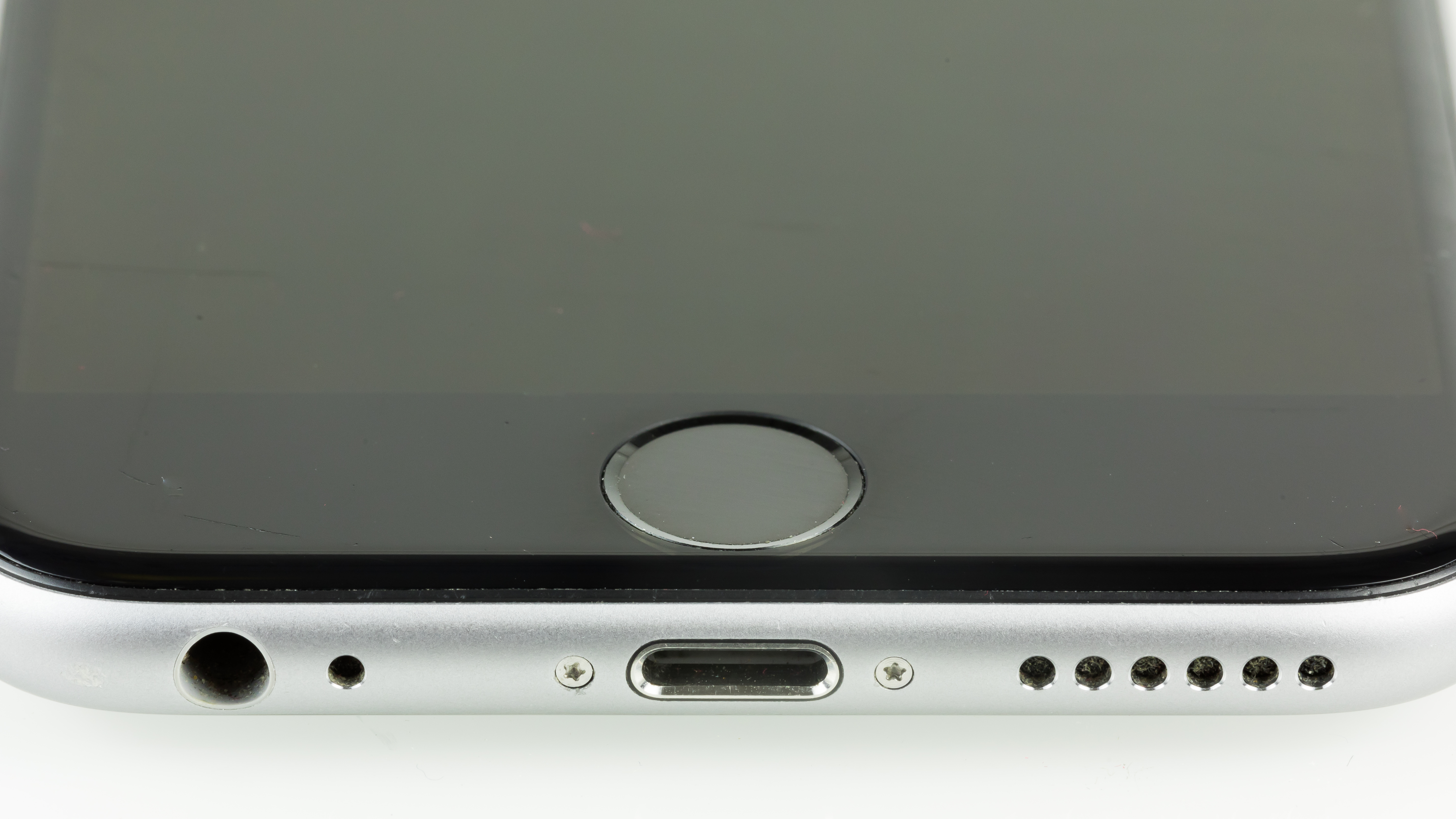 iPhone 6s - Touch ID, 3.5mm Phone connector, Lightning (connector). Pentalobe screws left and right of the Lightning slot